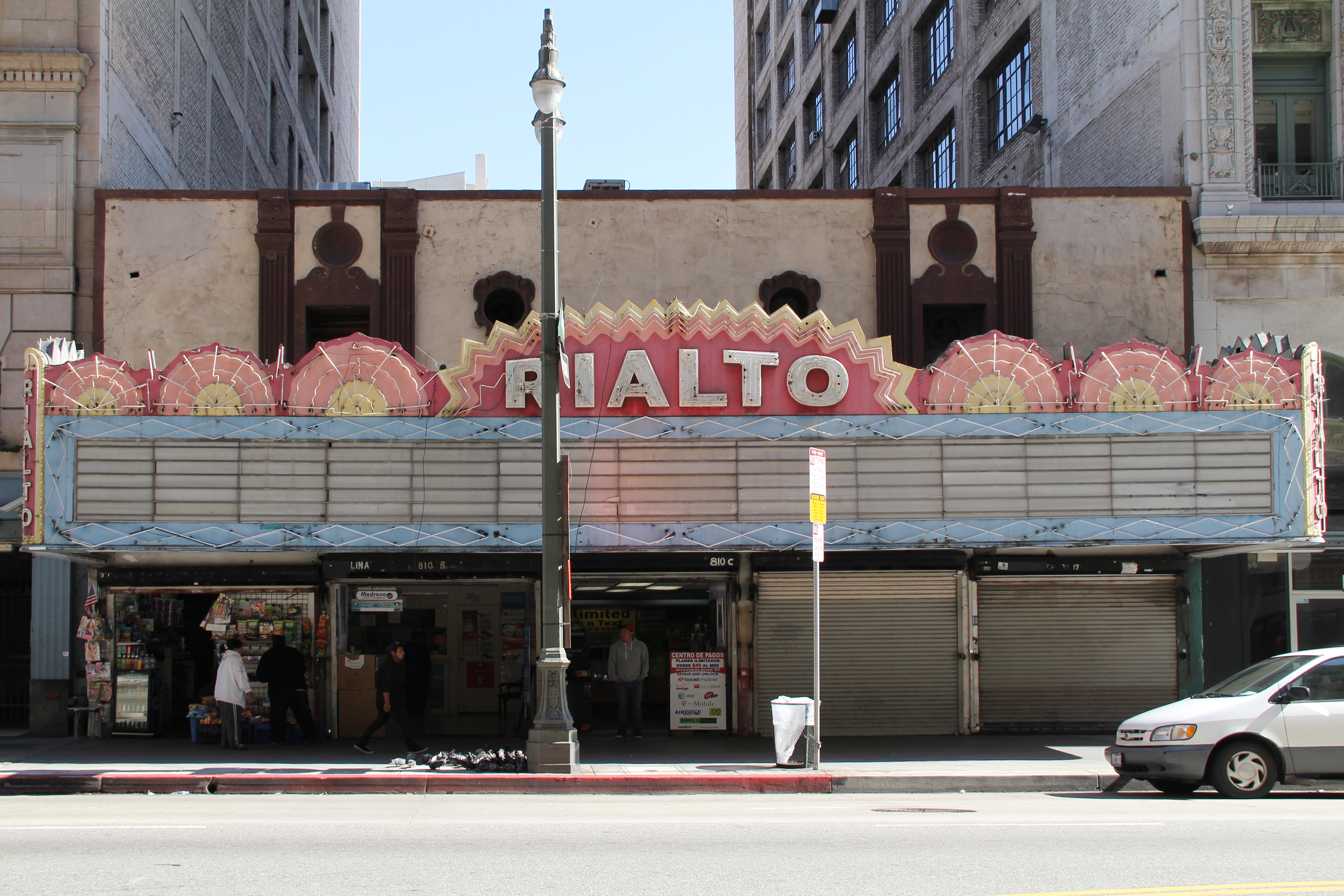 Rialto Theatre, downtown LA USA